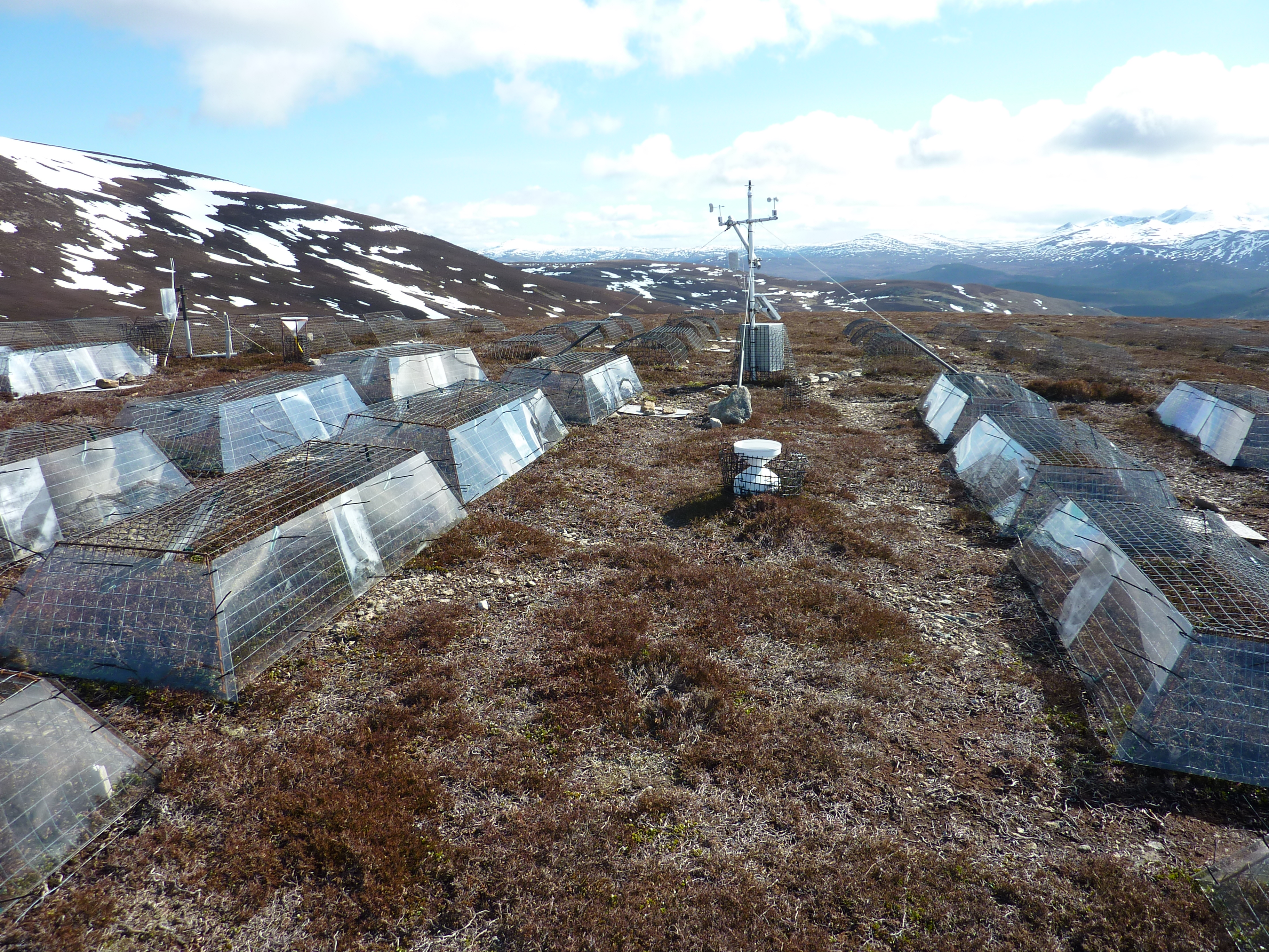 Climate Change experiment at Culardoch On the short-growing heathery slopes of Culardoch, at 730m above sea level, several rows of open-topped cloches and a weather station. Details of the experiment being carried out by the Macaulay Institute can be seen at